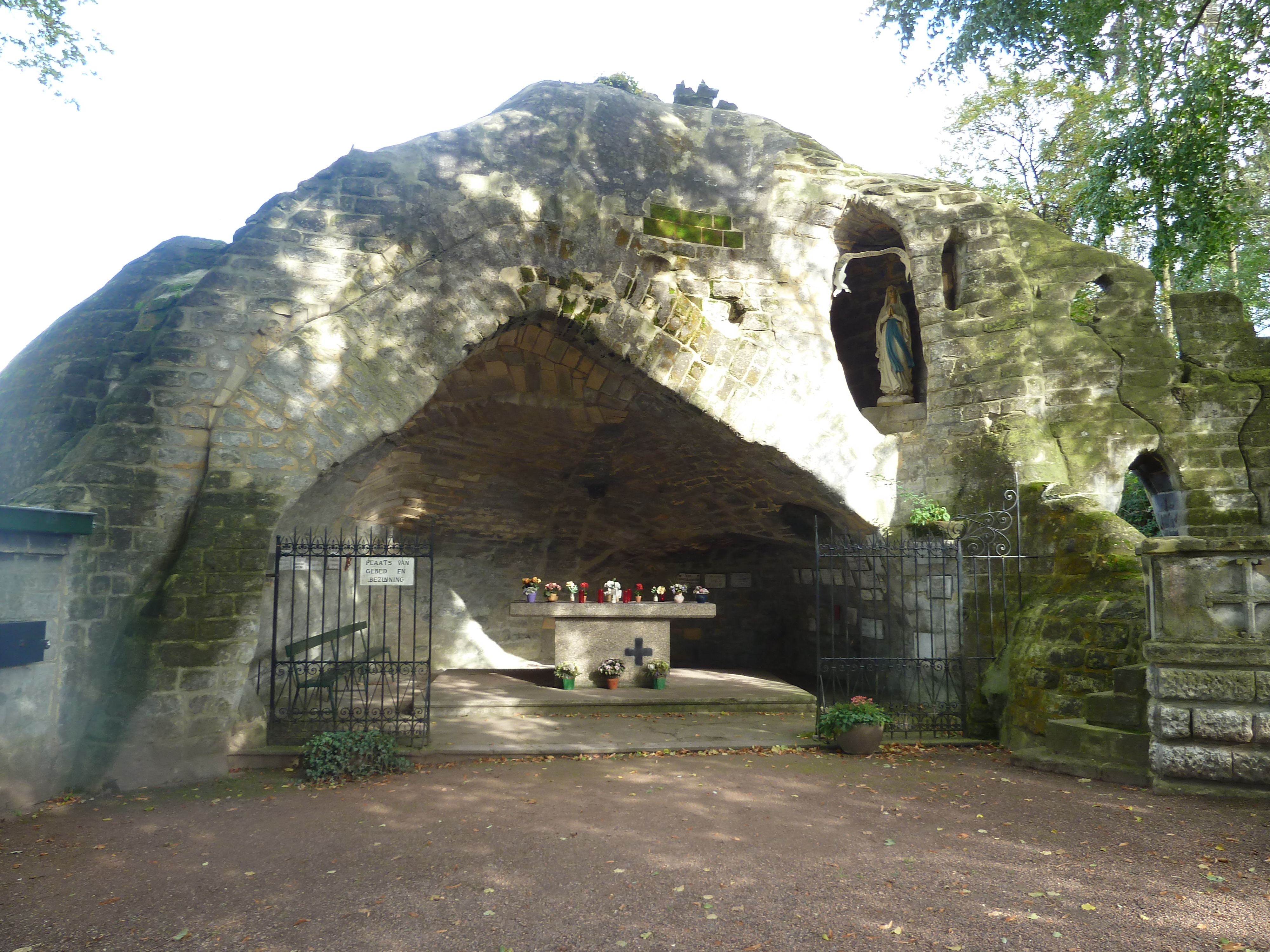 Lourdesgrot, Cadier en Keer, Limburg, the Netherlands